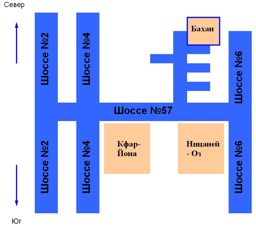 Travel directions to the Utopia park, near Netanya, Israel